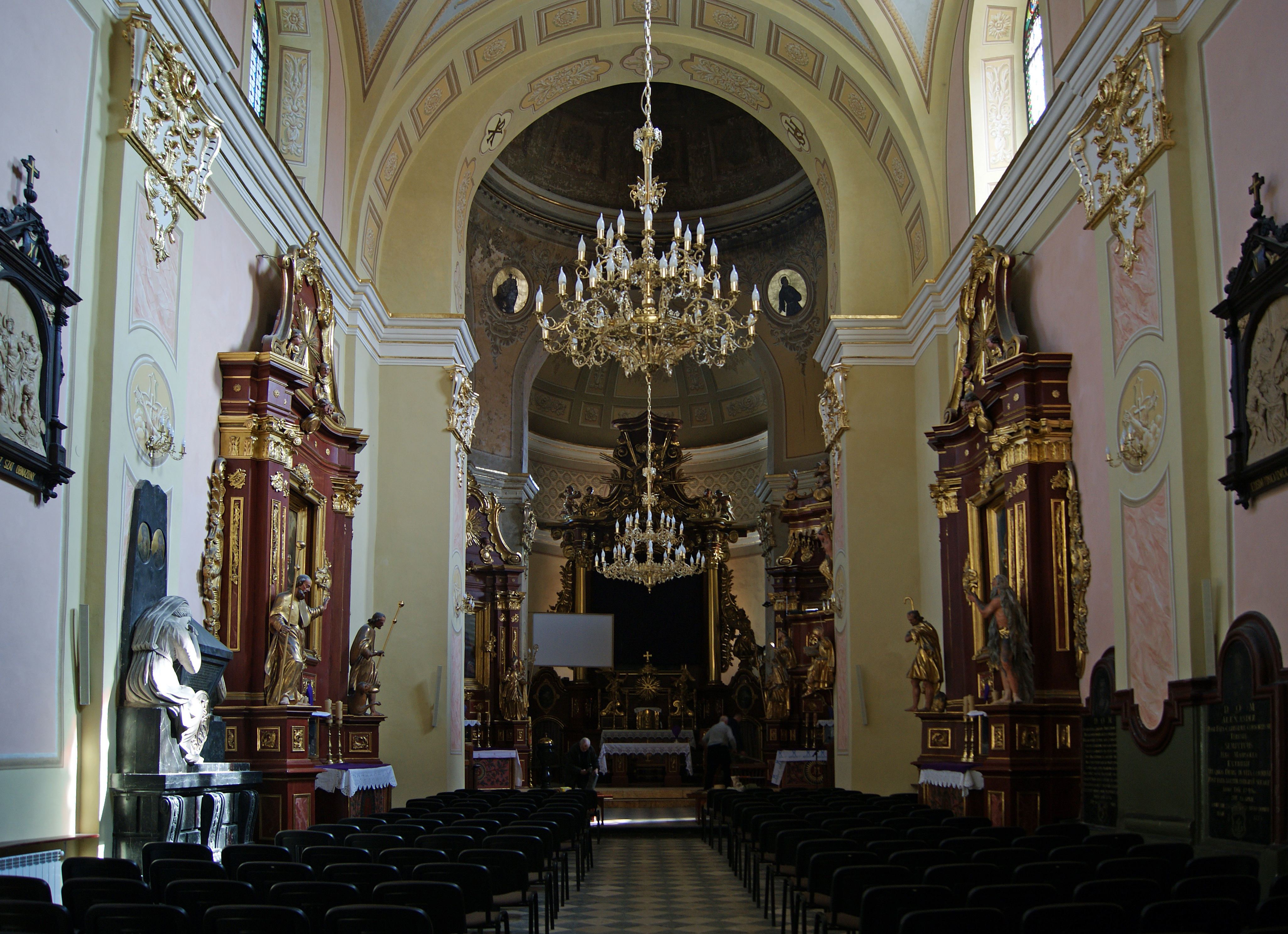 Church of the Stigmata of St. Francis of Assisi (interior), 1 Klasztorna street, City of Alwernia, Chrzanów County, Lesser Poland Voivodeship, Poland